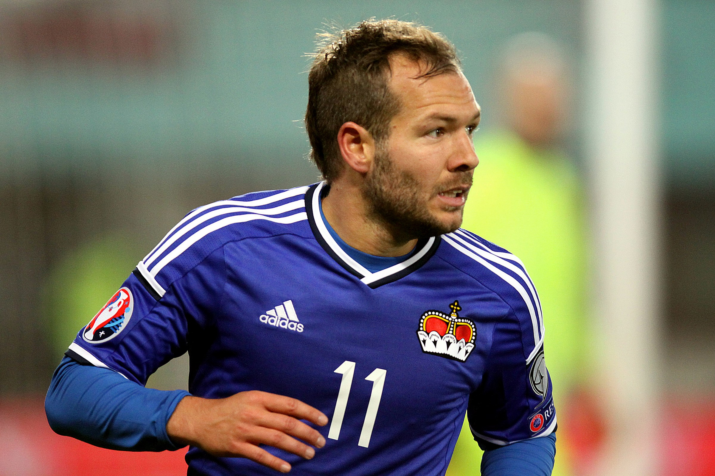 UEFA Euro 2016 qualifying, Group G – Austria (red shirts) vs. Liechtenstein (blue shirts) 3–0 (1–0) on 2015-10-12 in Ernst-Happel-Stadion, Vienna – The photo shows Franz Burgmeier.